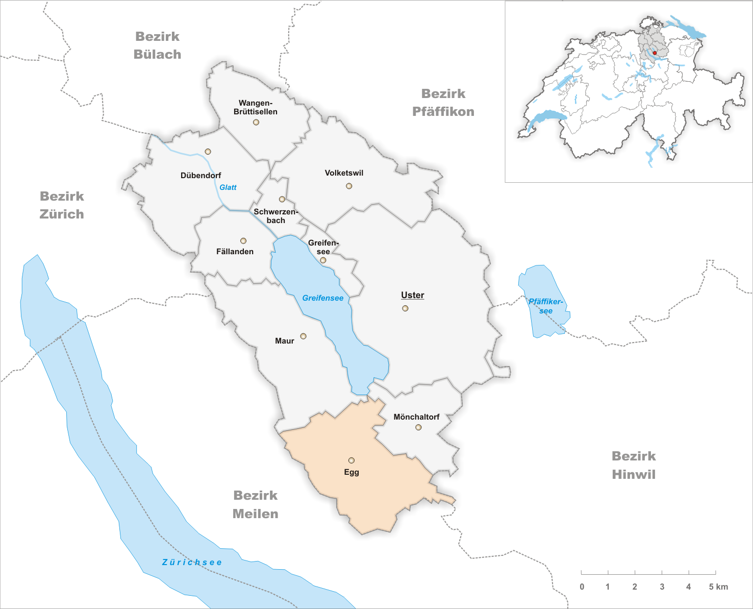 Municipality Egg